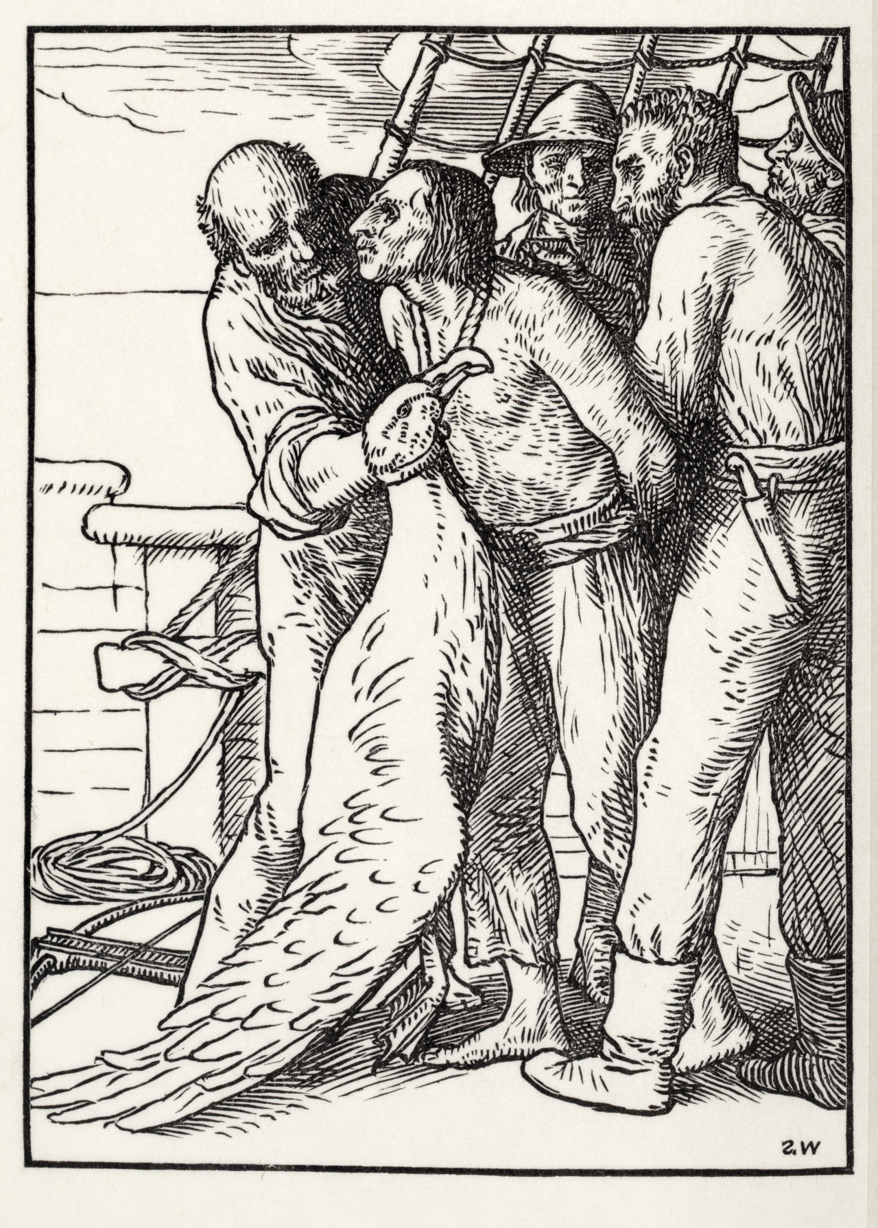 Frontispiece by William Strang in Coleridge’s poem The rime of the ancient mariner (Essex House Press, 1903). The Scottish artist, William Strang (1859-1921), ran away to sea in his youth, but soon discovered his artistic talent and returned to study art at the Slade. He was a very versatile artist and among other things was well-known for his engravings.